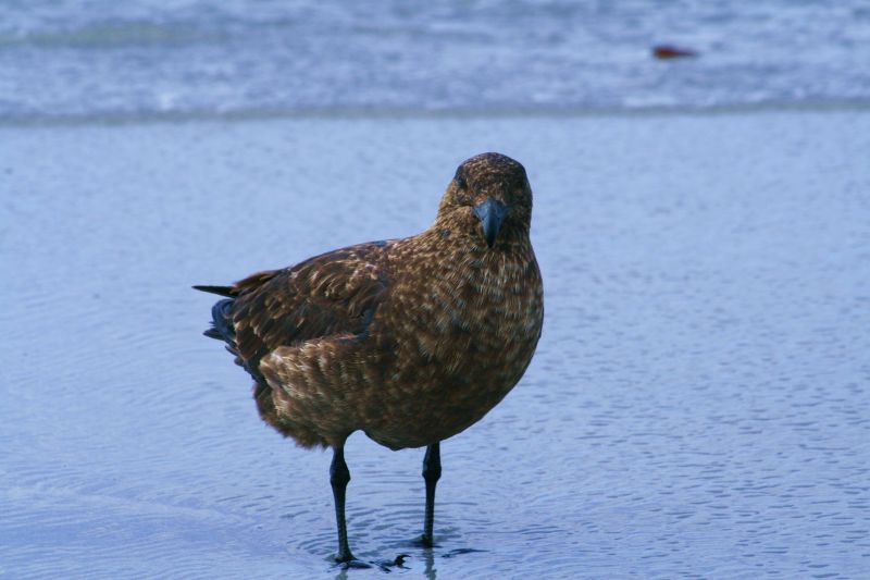 Brown Skua (Catharacta antarctica)